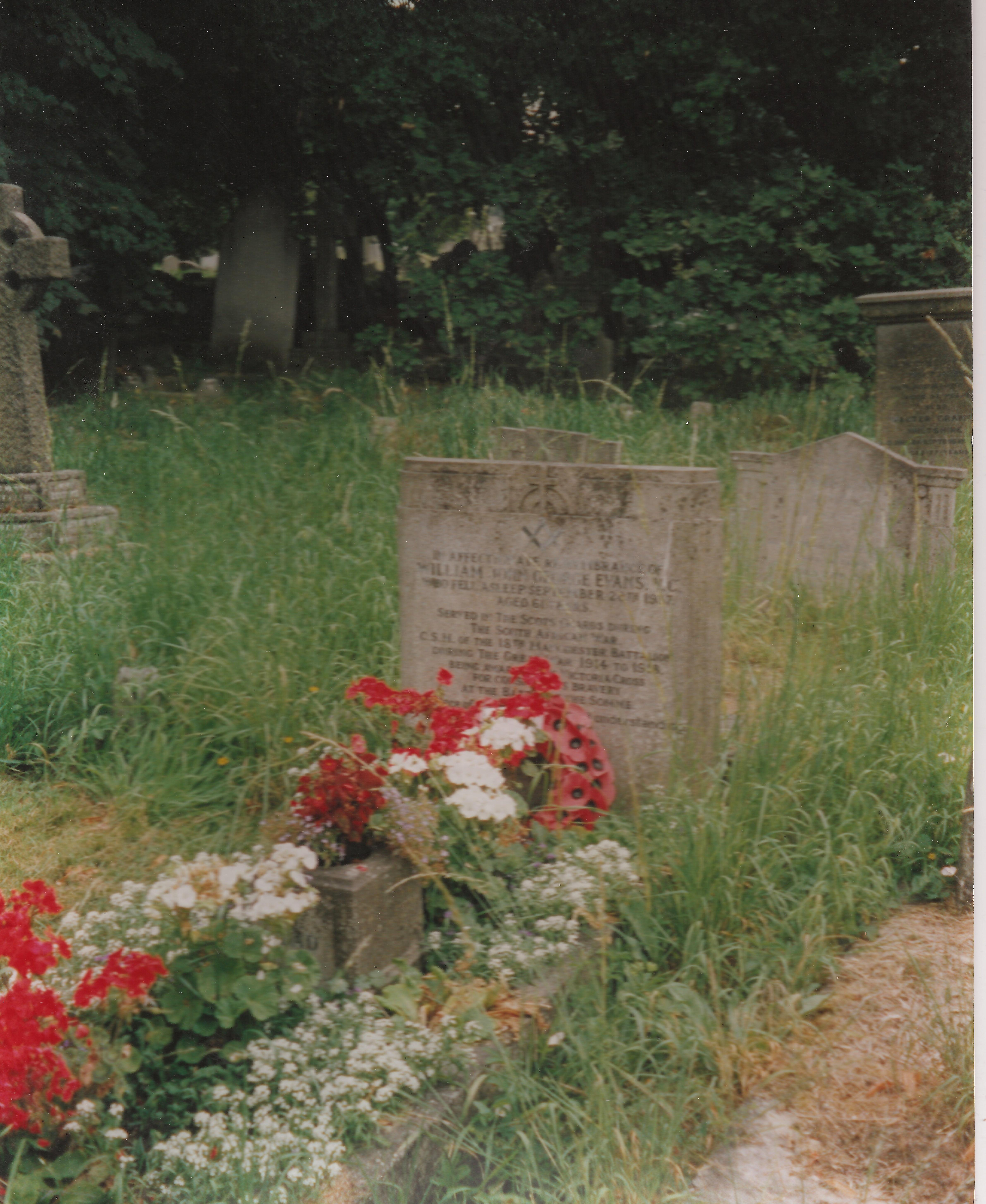 Sergeant-Major George Evans VC (1876 – 1937) of the Manchester Regiment was a recipient of the Victoria Cross for his action of 30 July 1916 during the Battle of the Somme. This is a photograph of his grave at Beckenham Cemetery, Bromley, UK.